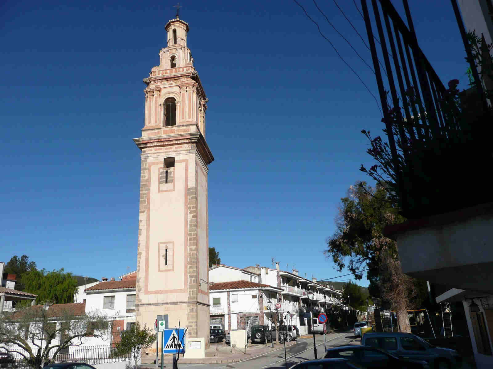 Ayodar, "Torre de los Dominicos", S. XVI